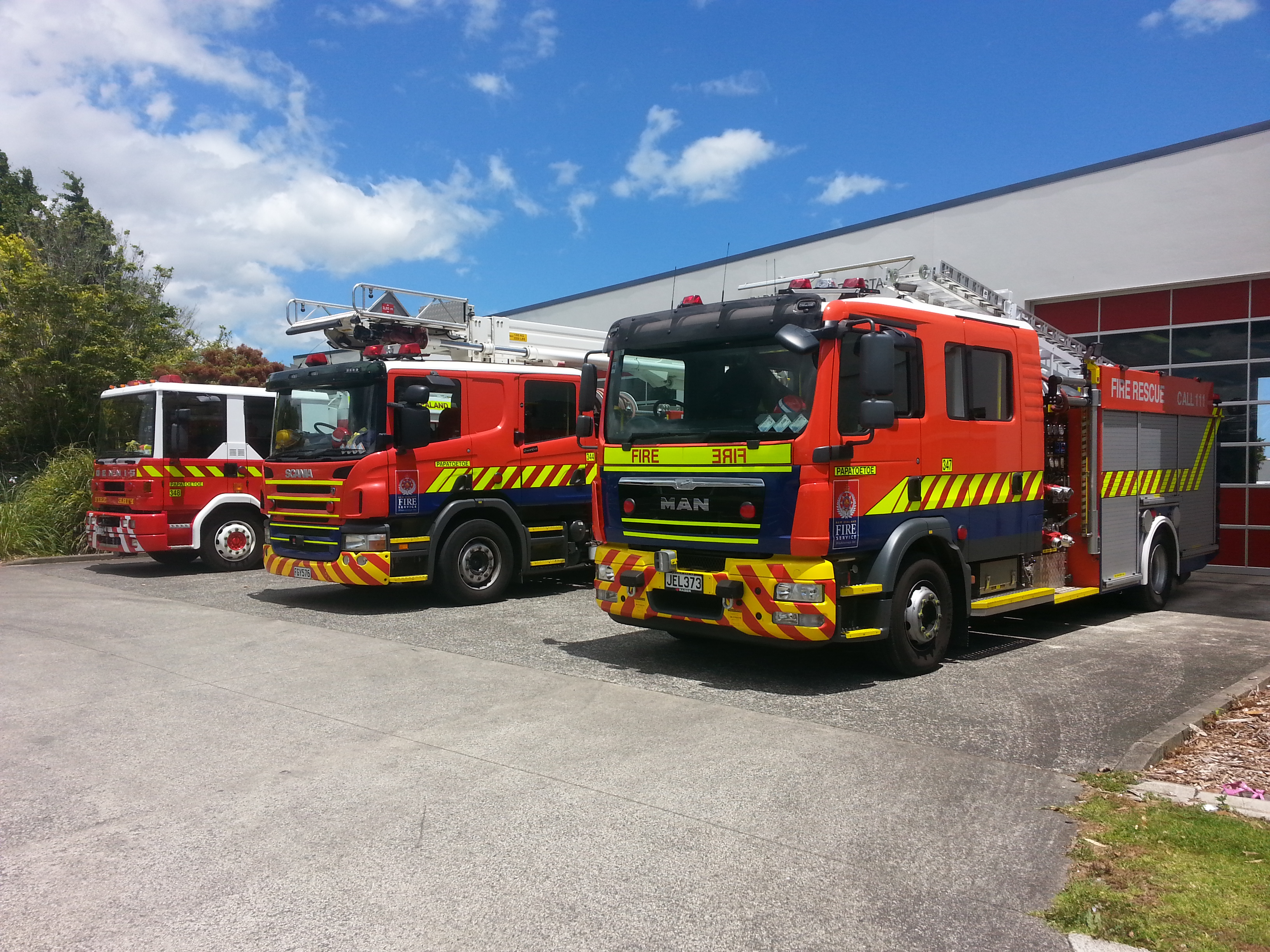 (from left) PAPA348, PAPA344 and PAPA347 parked up for a morning photoshoot.